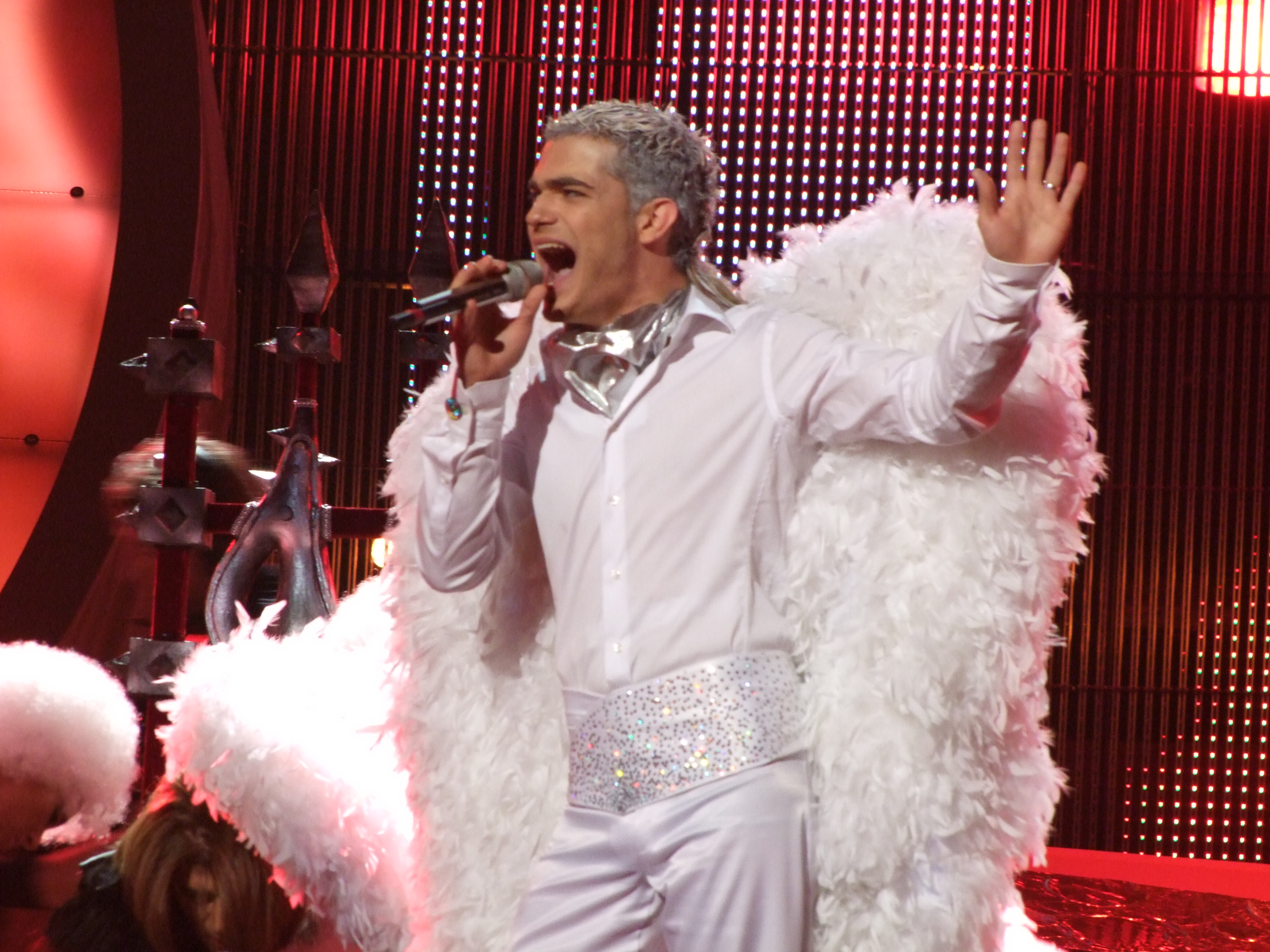 Eurovision Song Contest 2008, 1st semifinal Azerbaijan: Elnur & Samir - Day after day